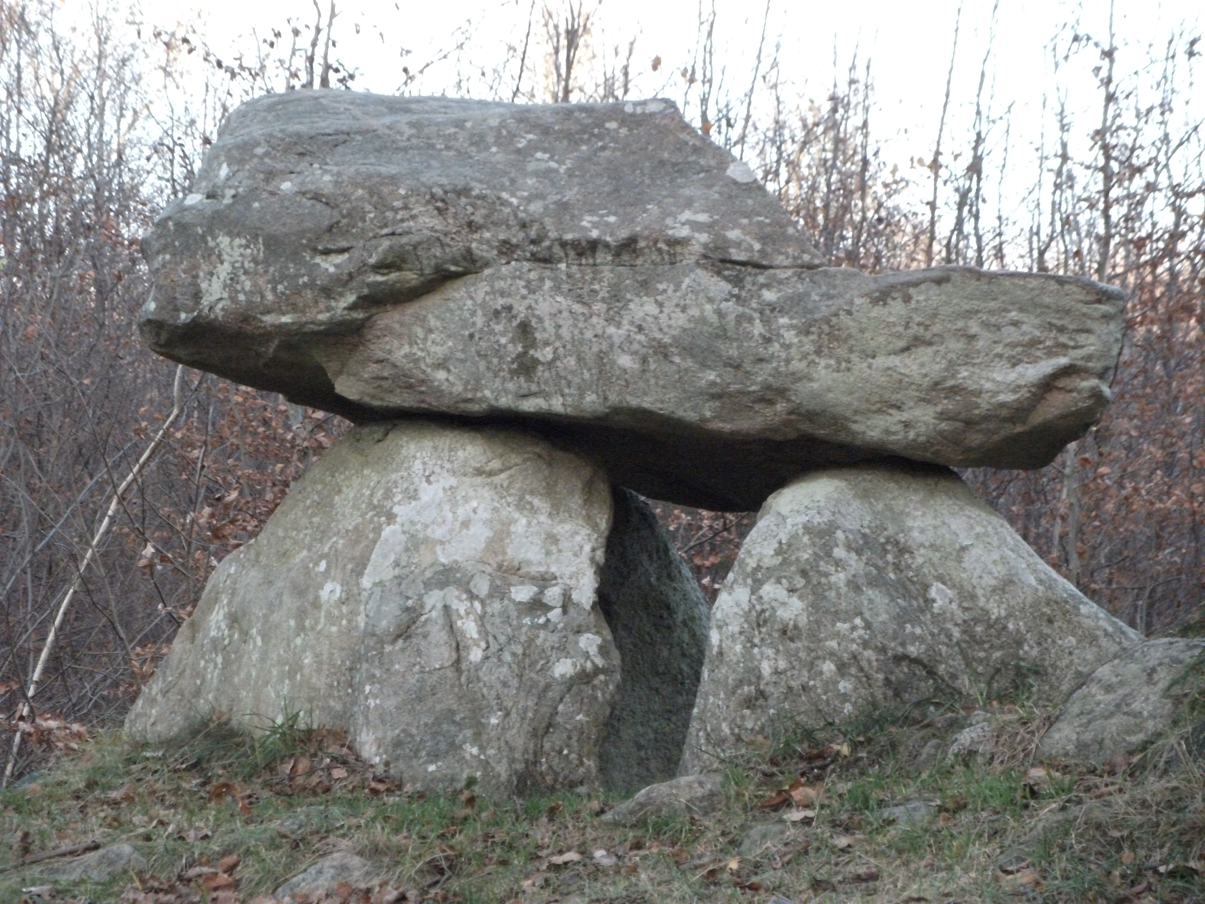 Passage Grave, Grevinge forest south side